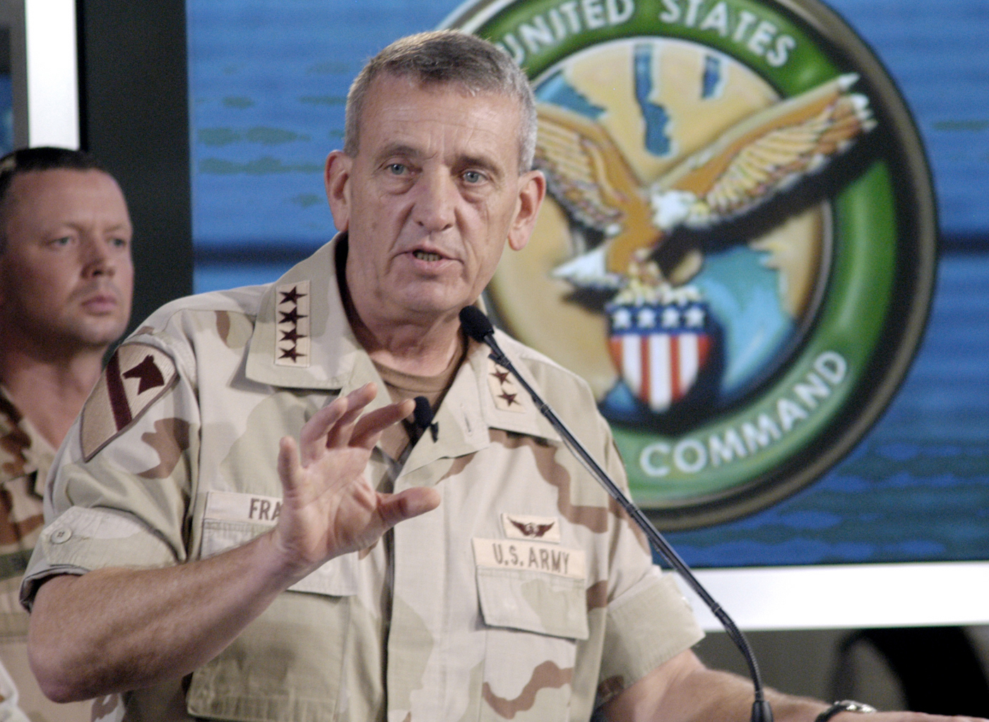 Central Command Area of Responsibility (Mar. 22, 2003) -- U.S. Army Gen. Tommy R. Franks, Commander in Chief of U.S. Central Command, holds a press conference with embedded media in the media center in the Quatar. Gen. Franks briefed media on the status of Operation Iraqi Freedom and the forces used thus far. Gen. Franks opened the press conference saying, “The heart and prayers of this coalition go out to the families of those who have made the Ultimate sacrifice.” Operation Iraqi Freedom is the multinational coalition effort to liberate the Iraqi people, eliminate Iraq’s weapons of mass destruction and end the regime of Saddam Hussein. U.S. Navy photo. (RELEASED)